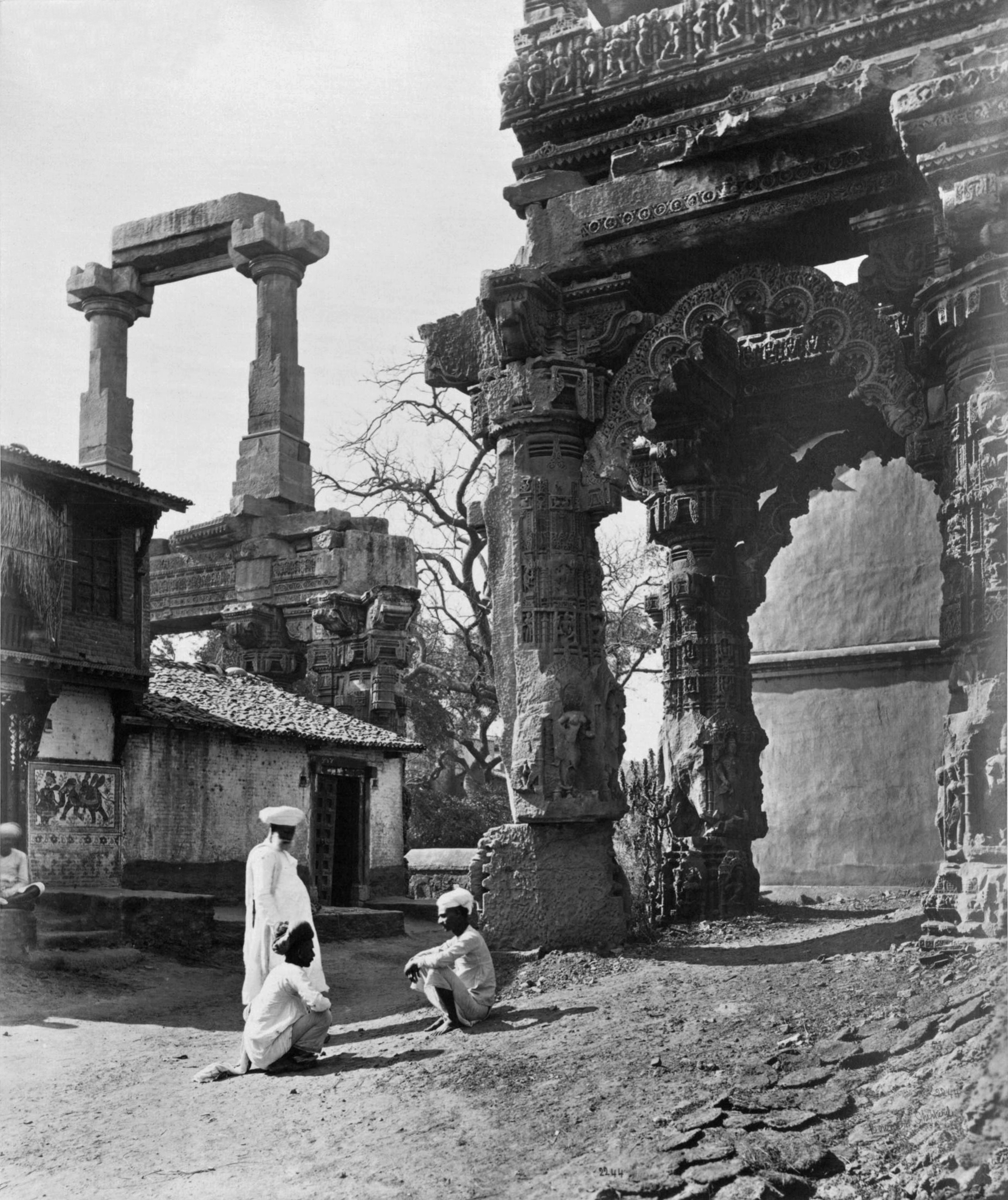 Ruins of the Rudra Mala at Siddhpur, Gujarat. Planche 4 in Photographs of architecture and scenery in Gujarat and Rajputana, by Bourne & Shepherd, and James Burgess.